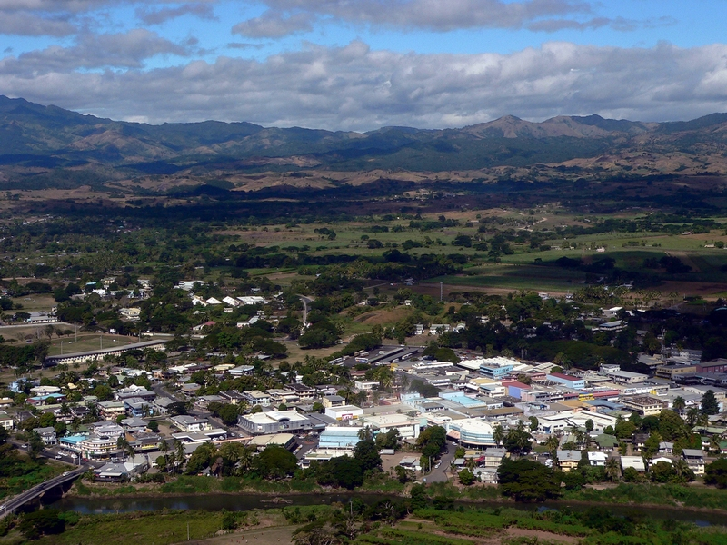 Aerial view of Nadi, Fiji, while approaching Nadi International Airport.